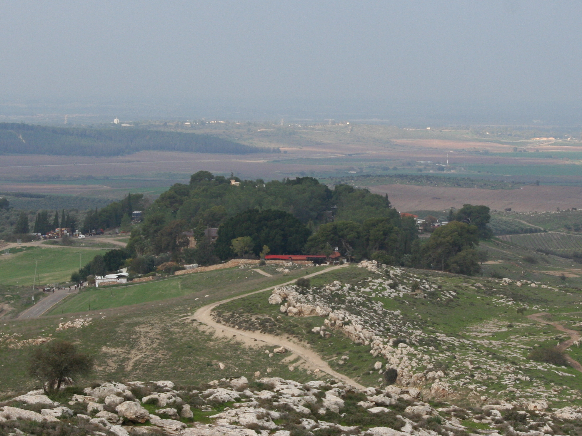 Retorno drug rehabilitation center near Beit Shemesh